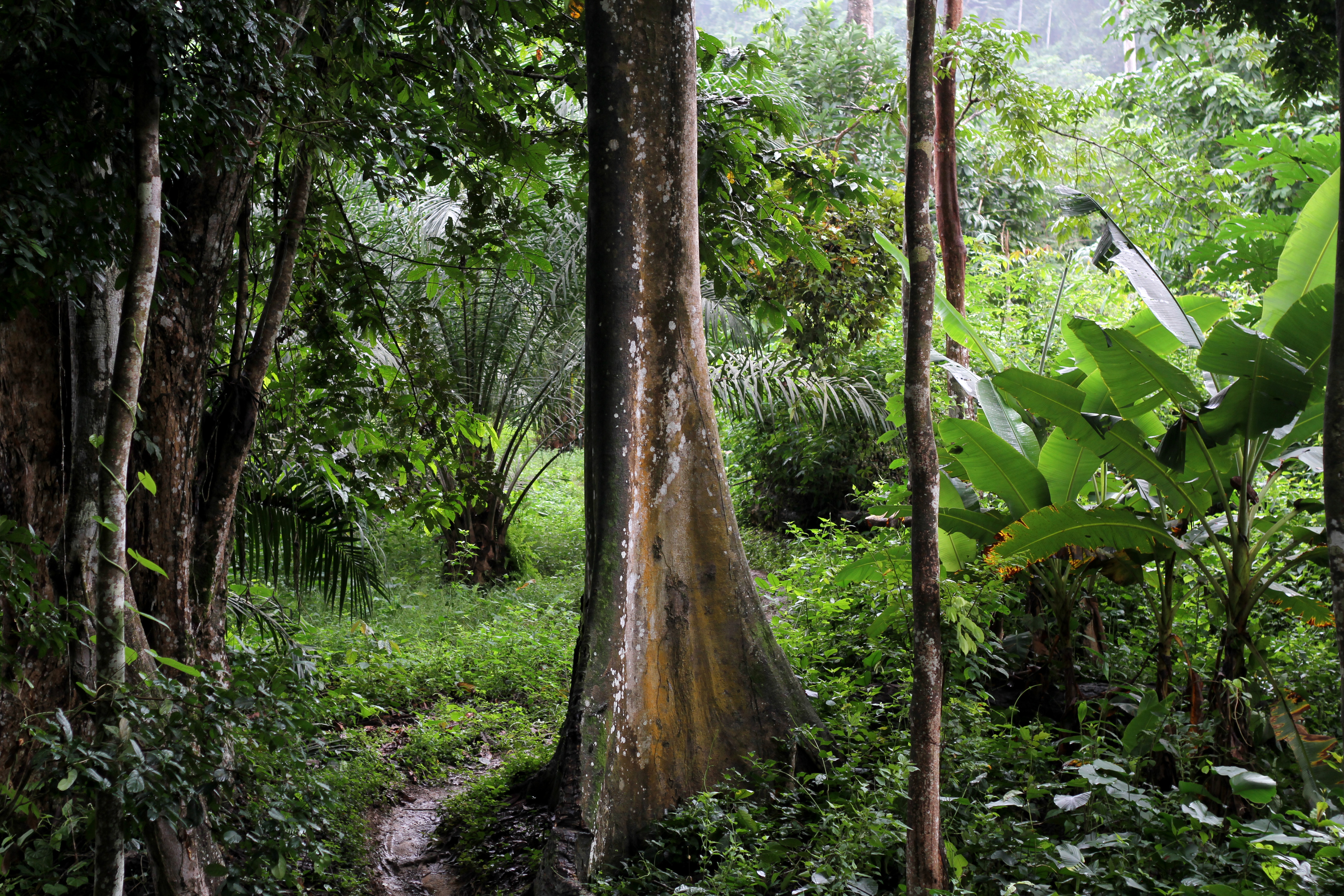 Tayap eco-orchards (Cameroon)